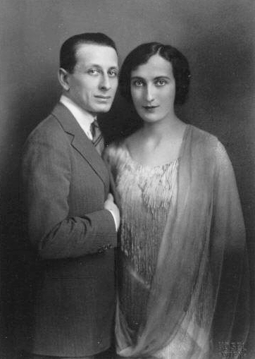 Polish / French pianist and composer Alexandre Tansman (1897-1986) with his first wife Anna Eleonora Brociner